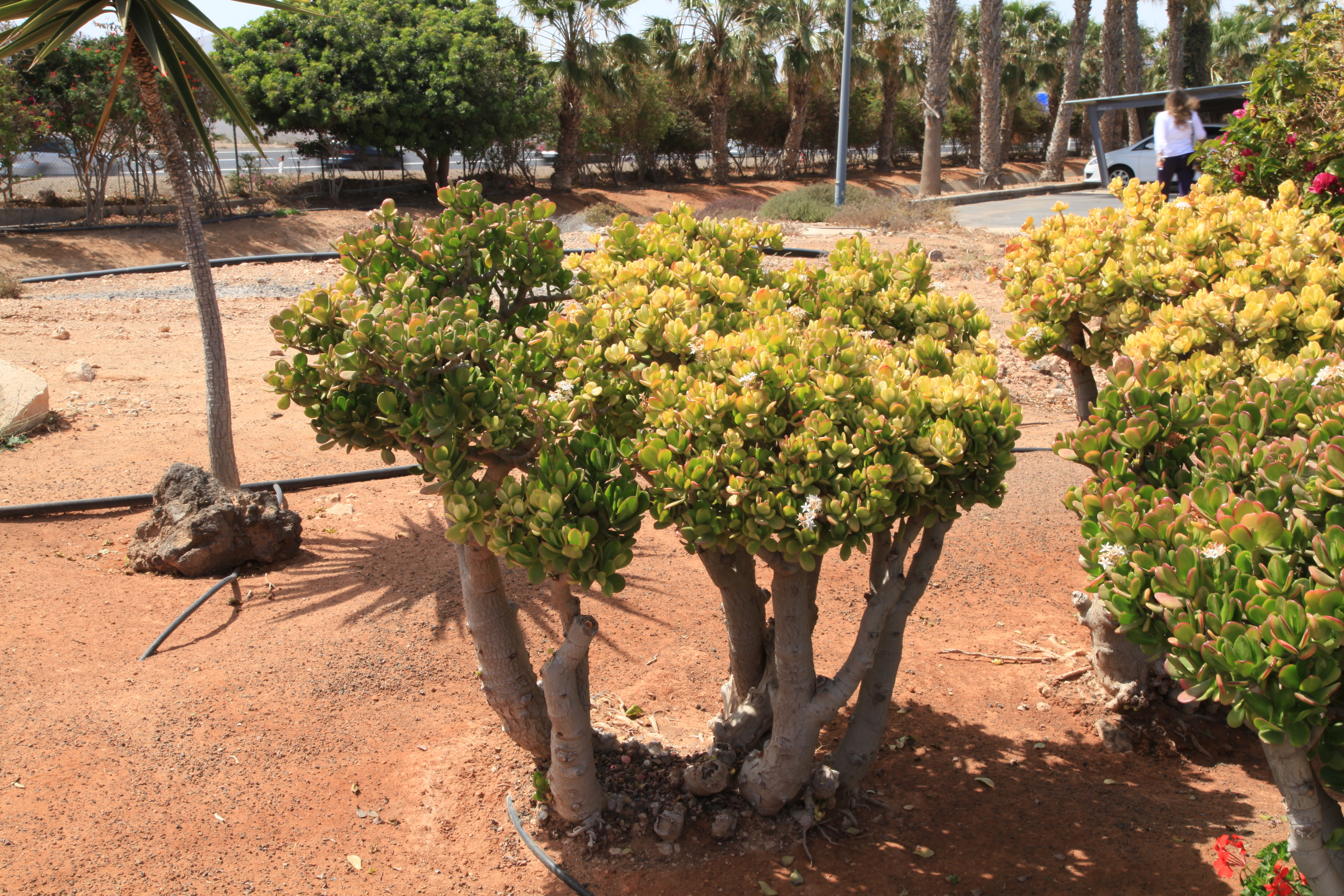 Crassula ovata grown in the airport area in Puerto del Rosario, Fuerteventura, Canary Islands